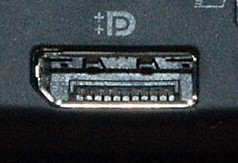 The DisplayPort of the left-hand-side connectors on a Lenovo X220